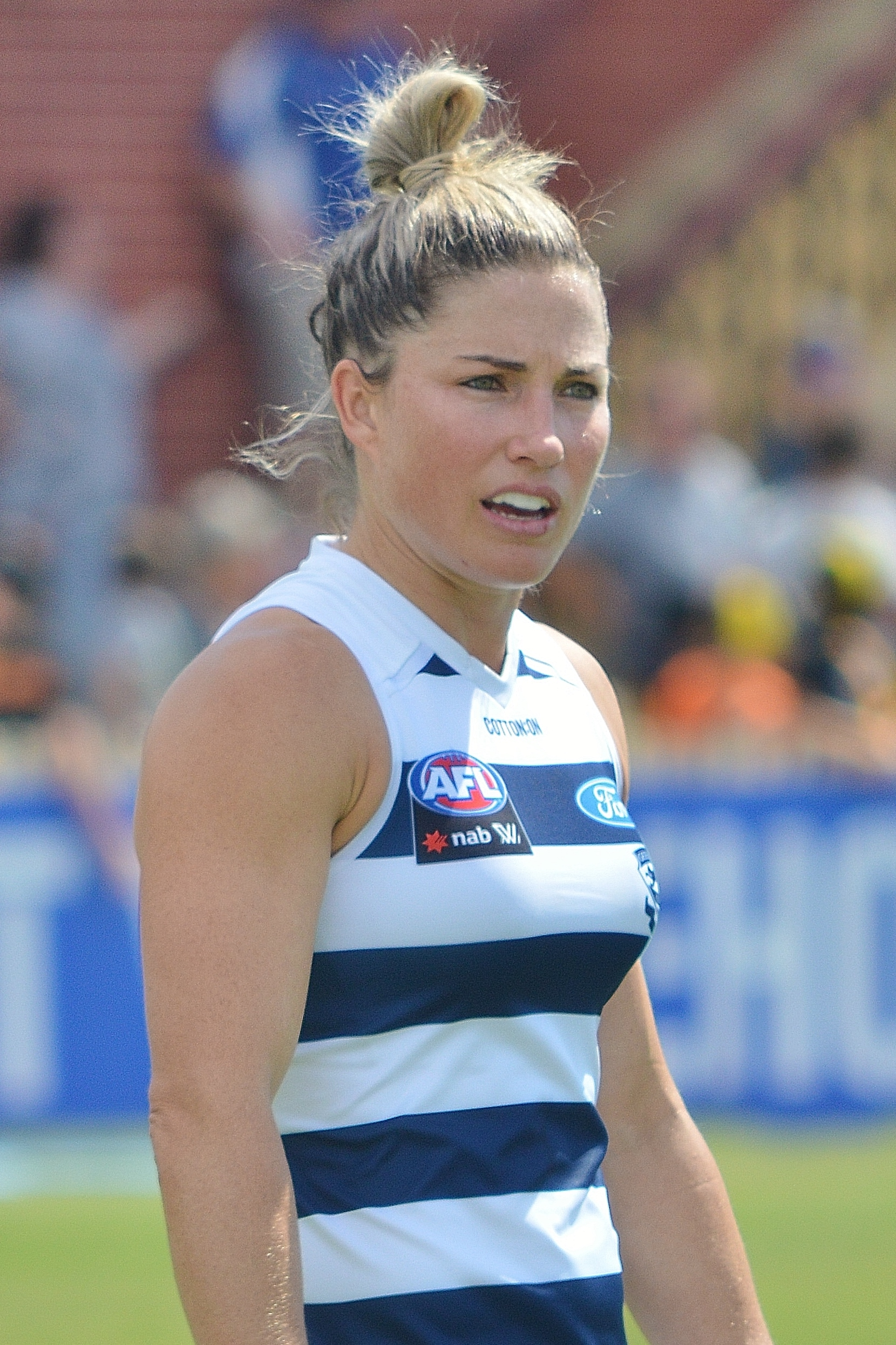 Mel Hickey with Geelong in the round 4 2020 AFLW match against Richmond at Queen Elizabeth Oval in Bendigo.